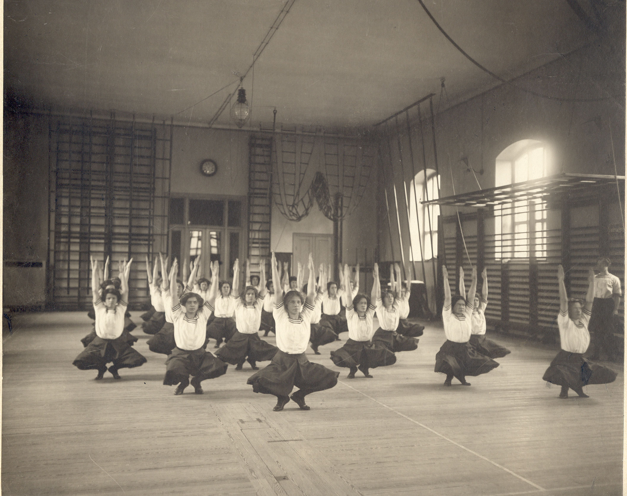 Swedish gymnastics at the Royal Gymnastics Central Institute in Stockholm, 1910